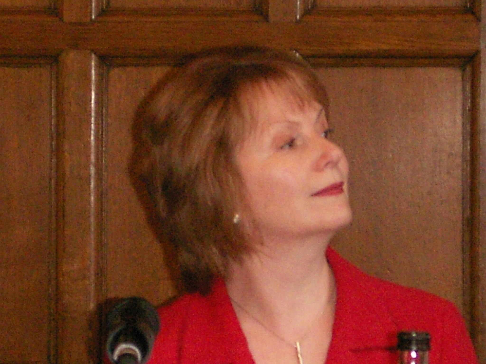 I took this picture of Hazel Blears in March 2007 Rathfelder 23:21, 15 April 2007 (UTC)